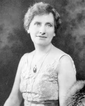 A photograph of Nellie T. Ross.